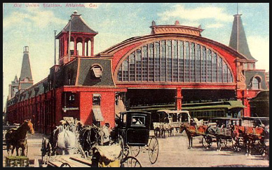 Atlanta Union Depot (built 1871)